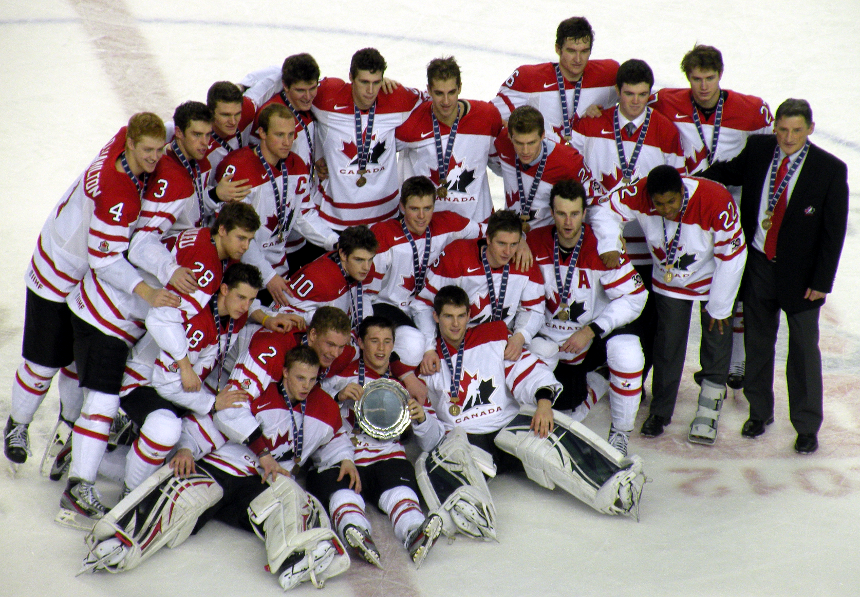 The Canadian national junior team poses after defeating Finland to capture the bronze medal at the 2012 World Junior Hockey Championships in Calgary, Alberta, Canada.